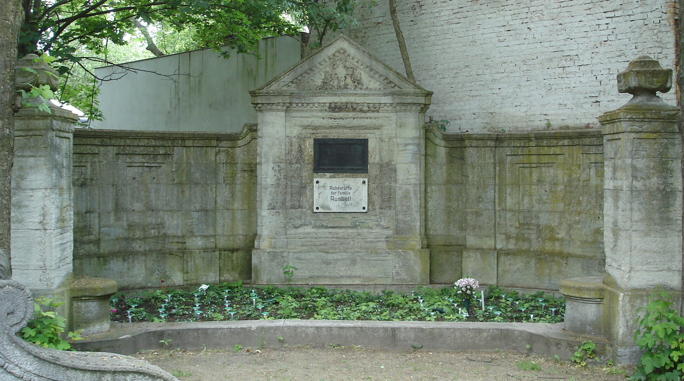 Grave of Emil Russel at the graveyard Alter Domfriedhof der St.-Hedwig, Berlin, view from the front, now reused as a common burial grave